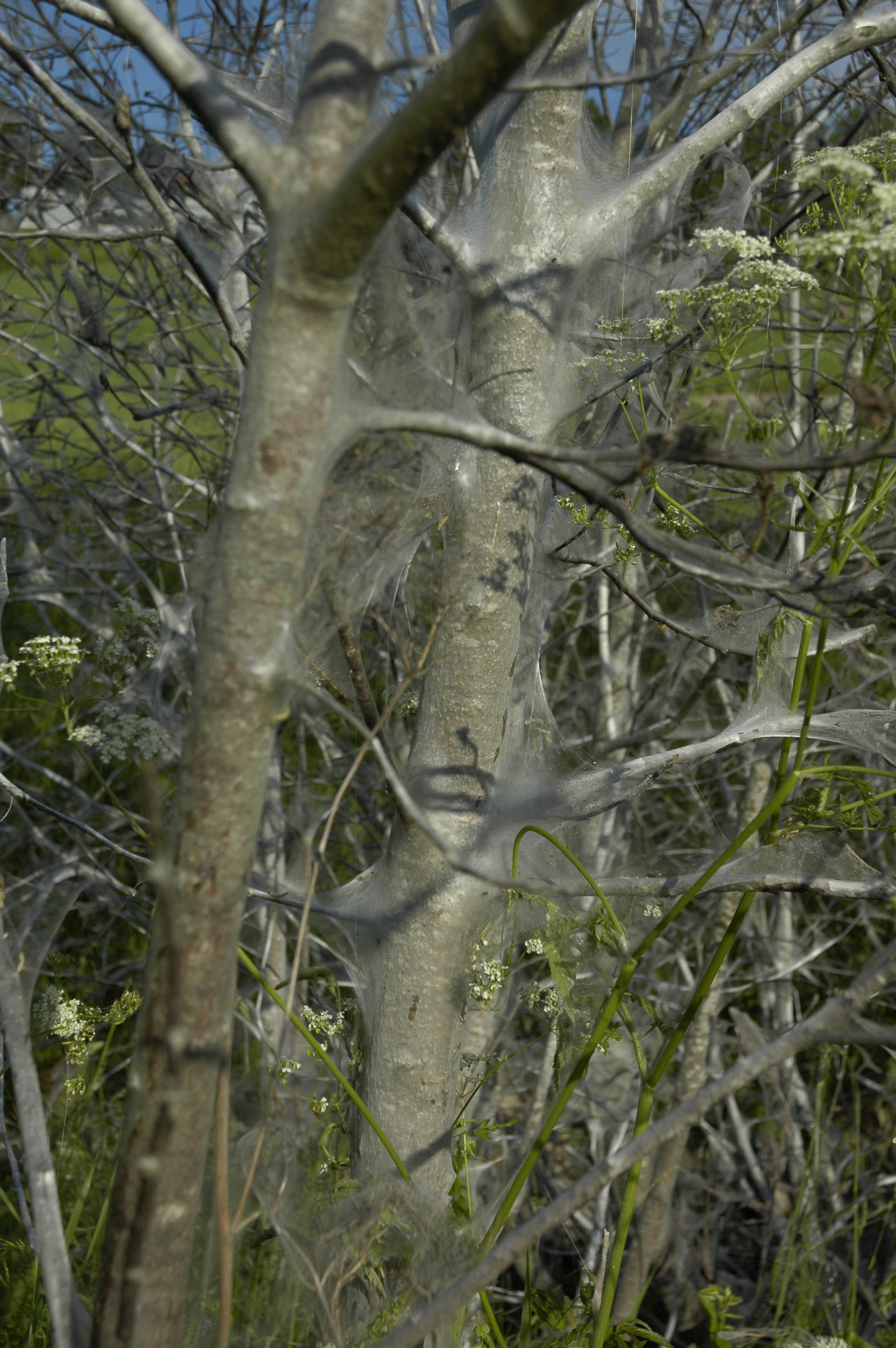 Cocoons of Yponomeuta evonymella on tree-trunks. Photo taken in Røyken, Norway